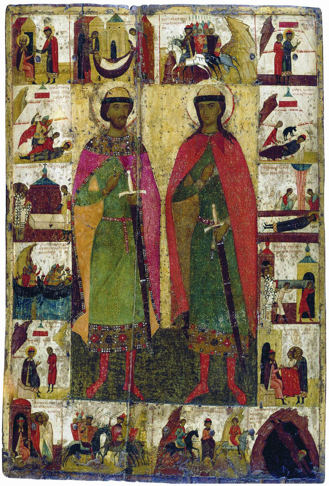 Boris and Gleb